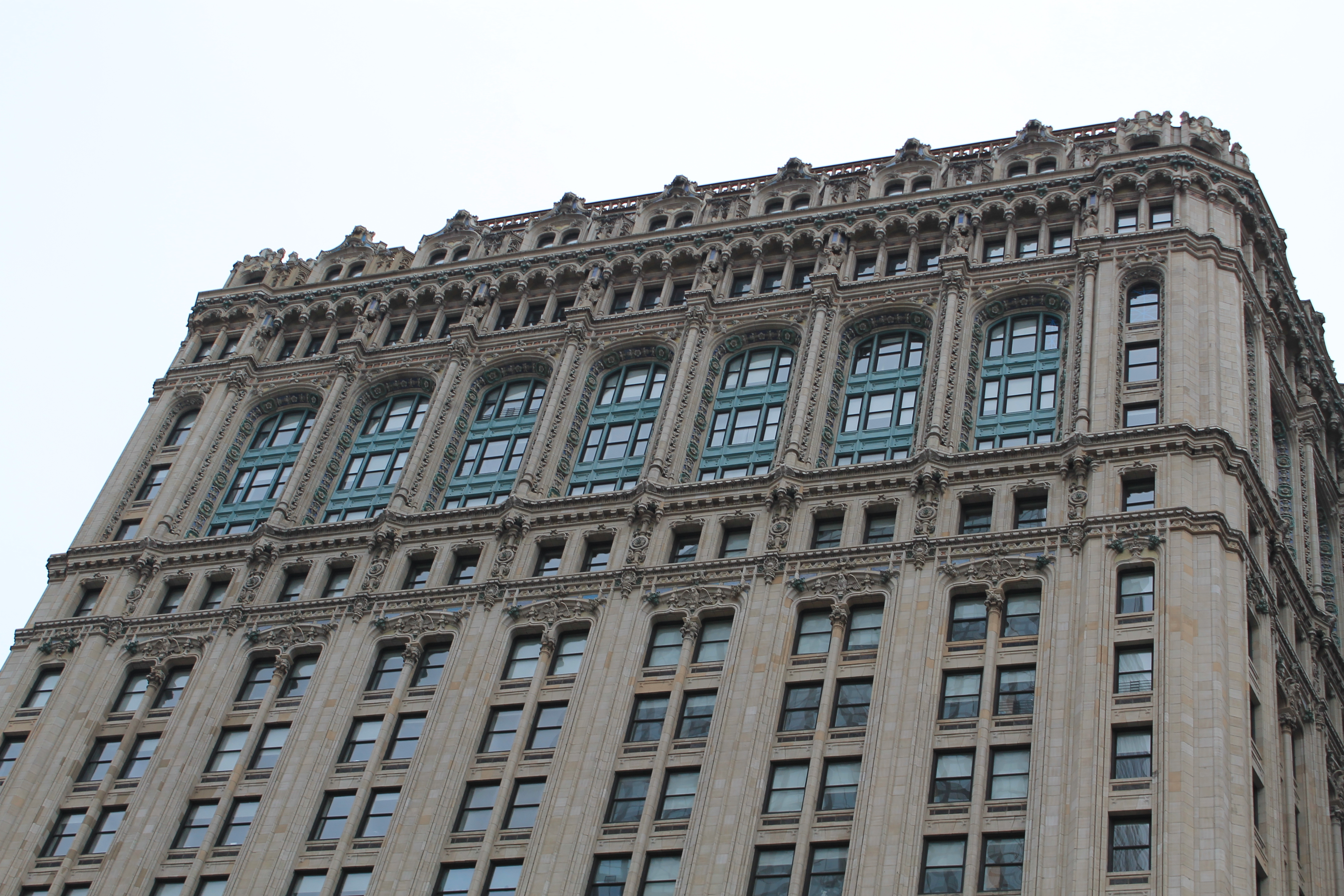 The Ground Zero Area